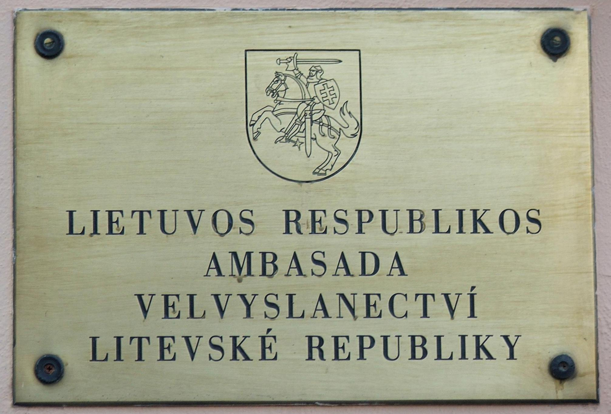 Coat of arms at the Embassy of Lithuania in Prague, Czechia